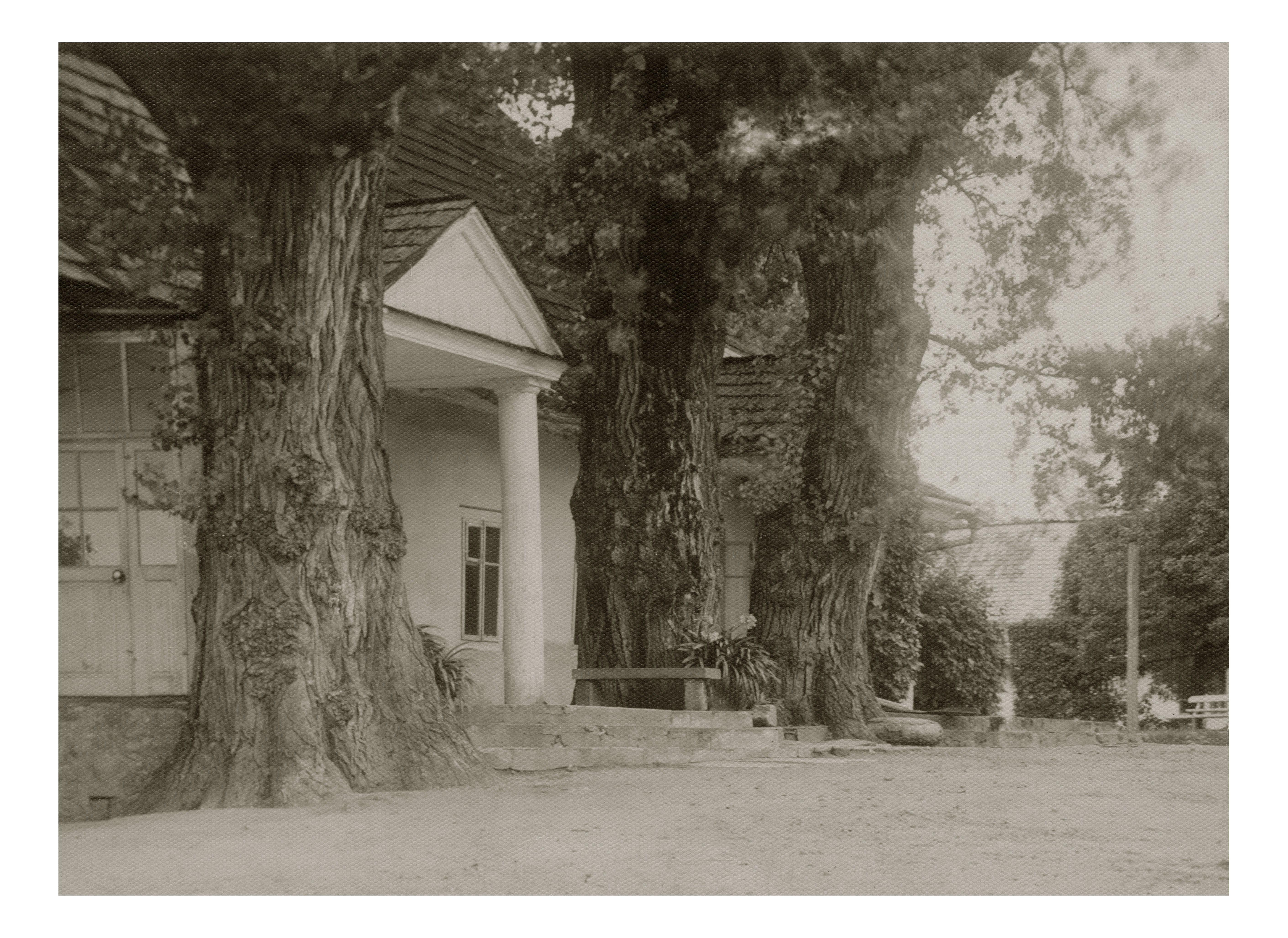 Klimkówka near Rymanów: north side of the manor house. Old trees (tilias) closely flanking the entrance.